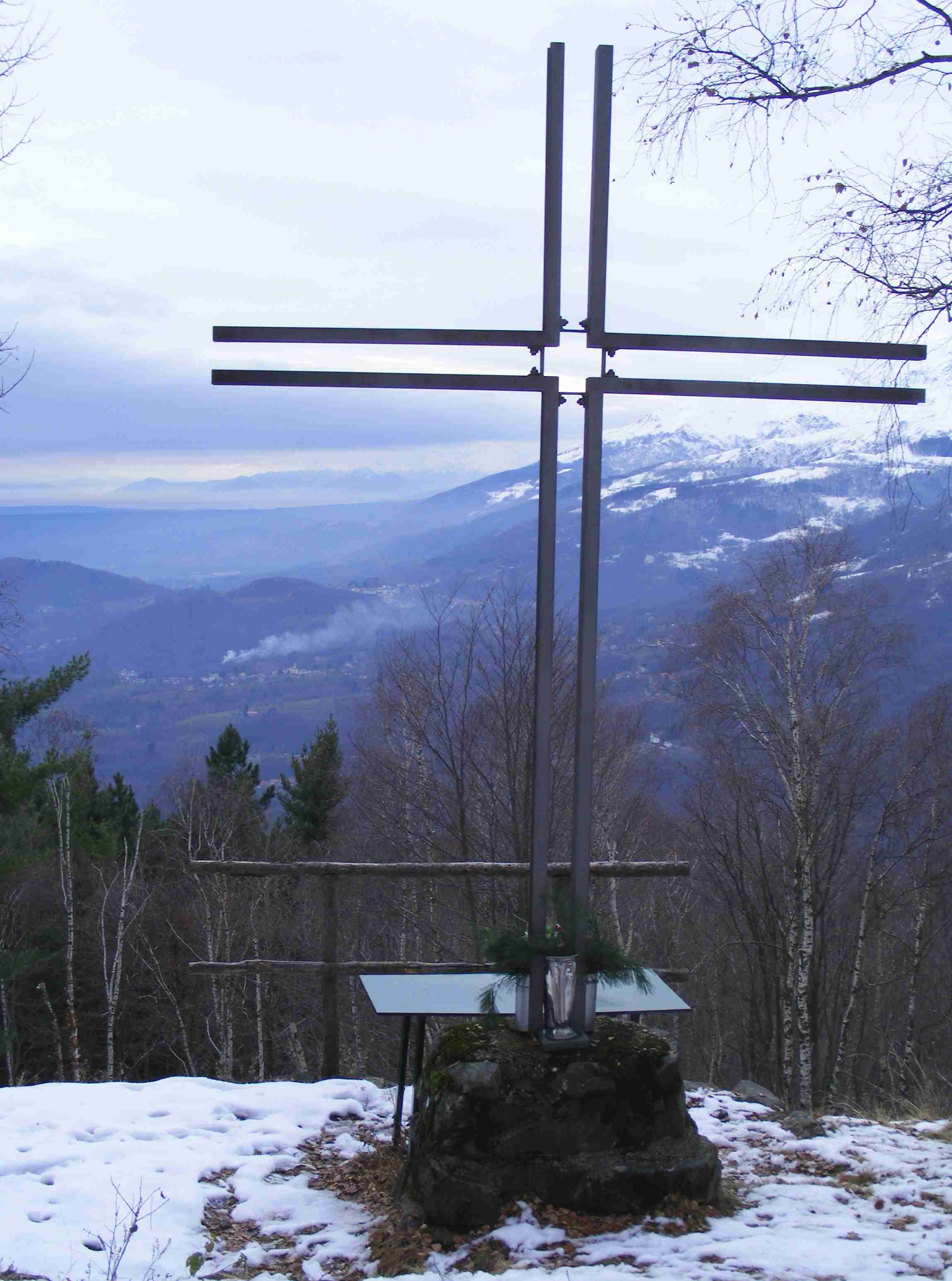 Mount Casto (BI, Italy): the cross on the top